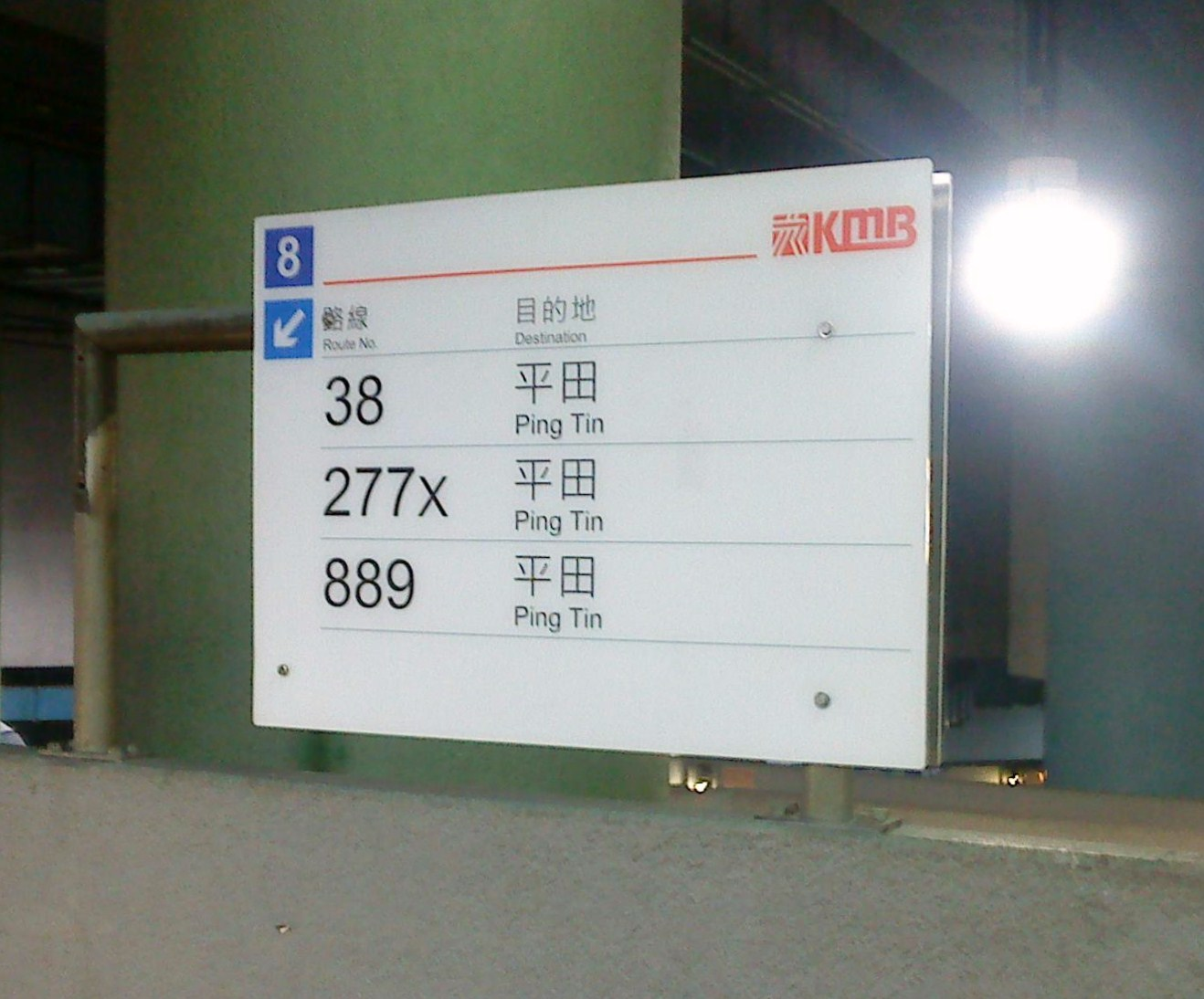 KMB sign in Lam Tin Public Transport Interchange.